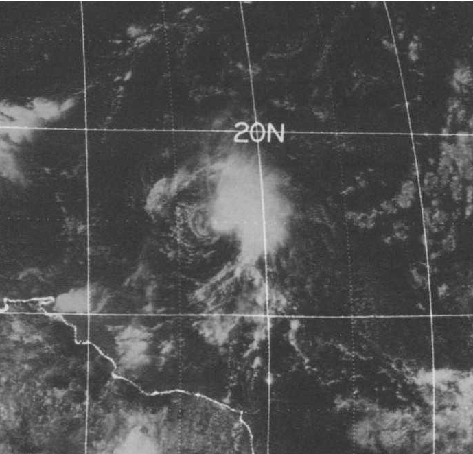 Satellite image of Tropical Storm Christine east of the Lesser Antilles